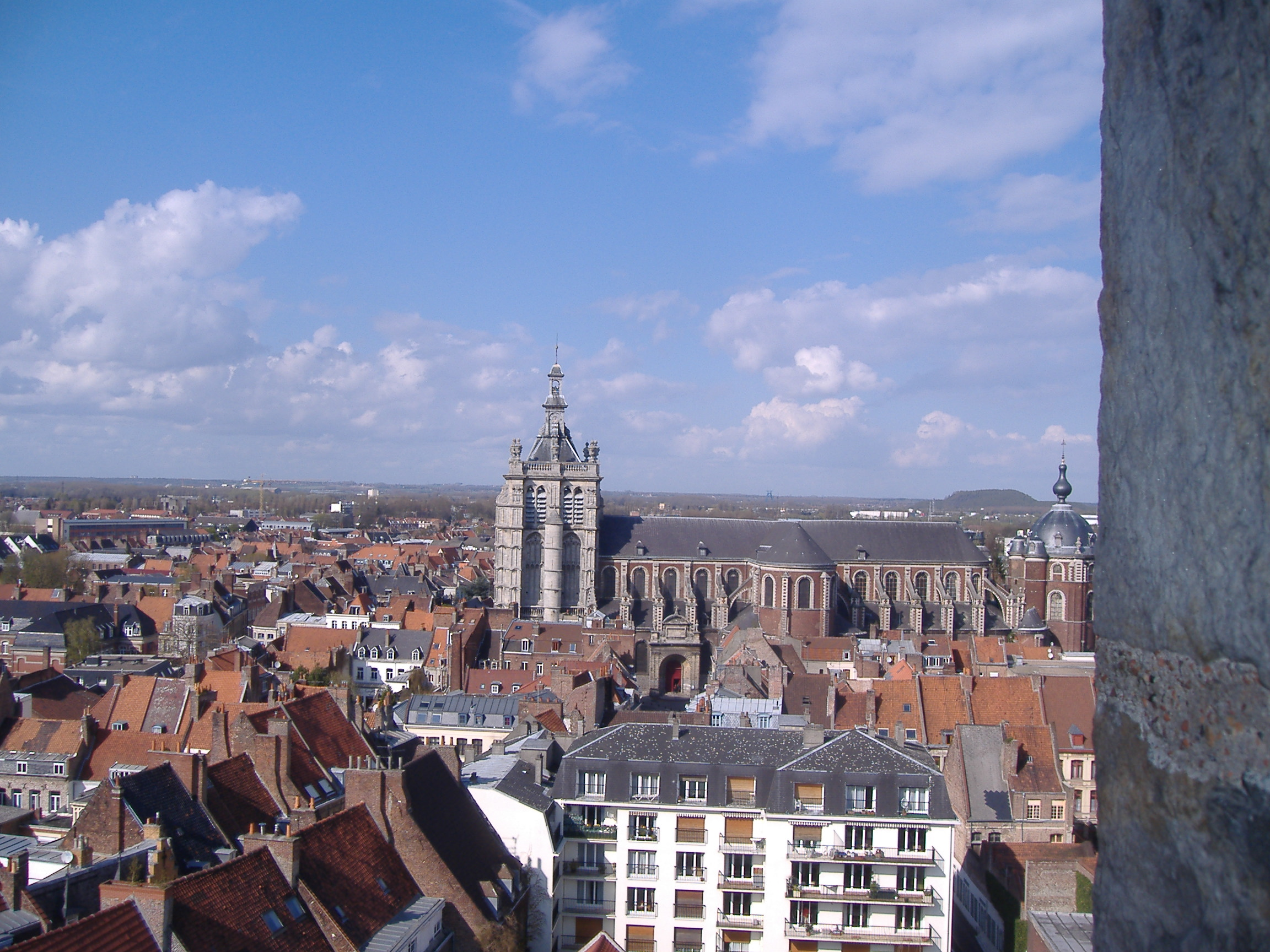 Douai, France.